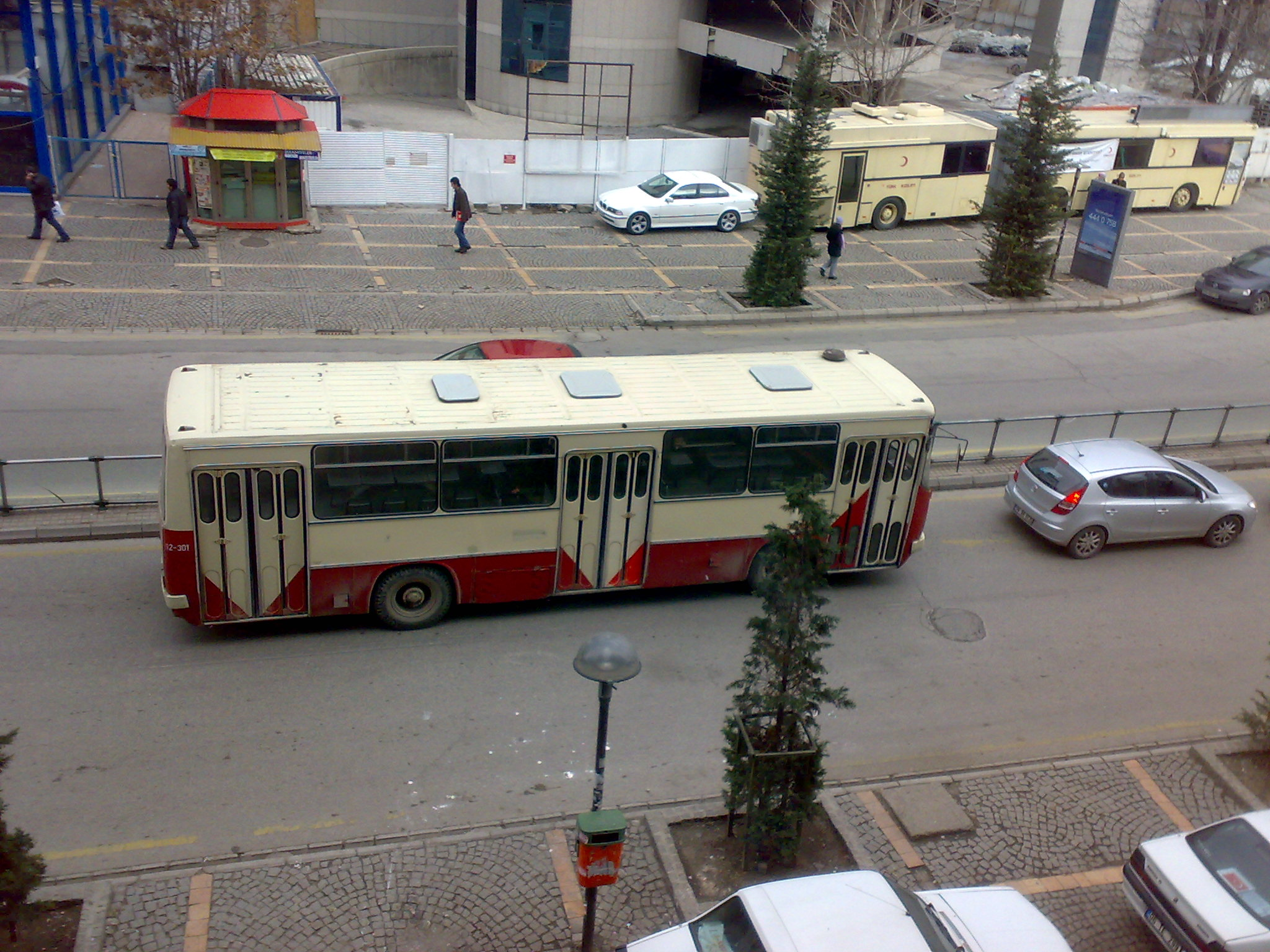 EGO's Ikarus 260 bus in Ankara